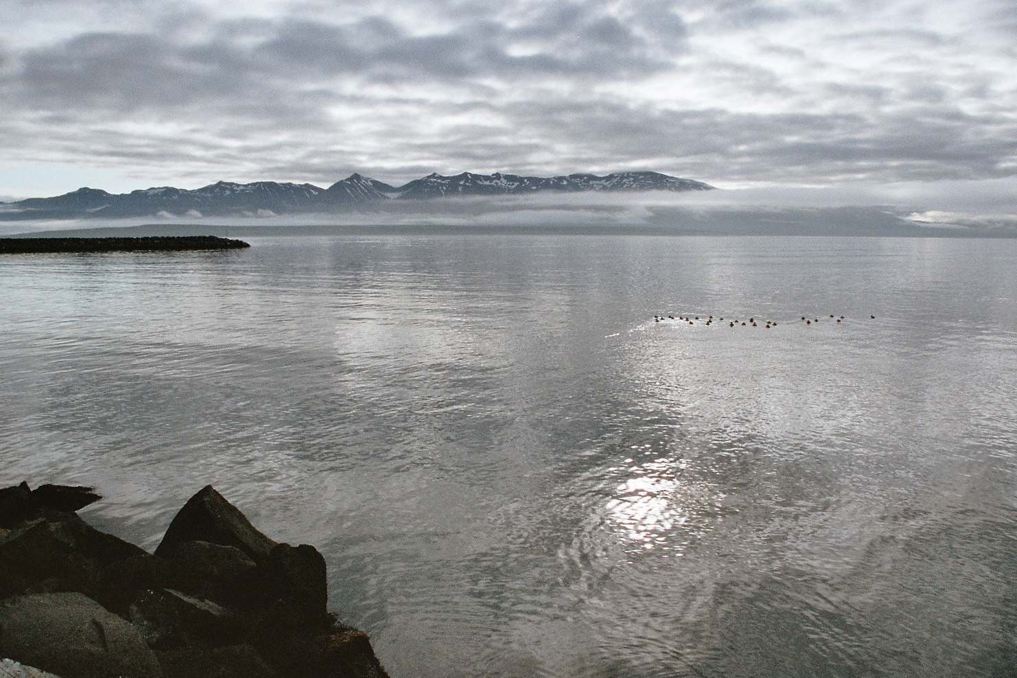 Eyjafjörður from Dalvík's beach, 2005.